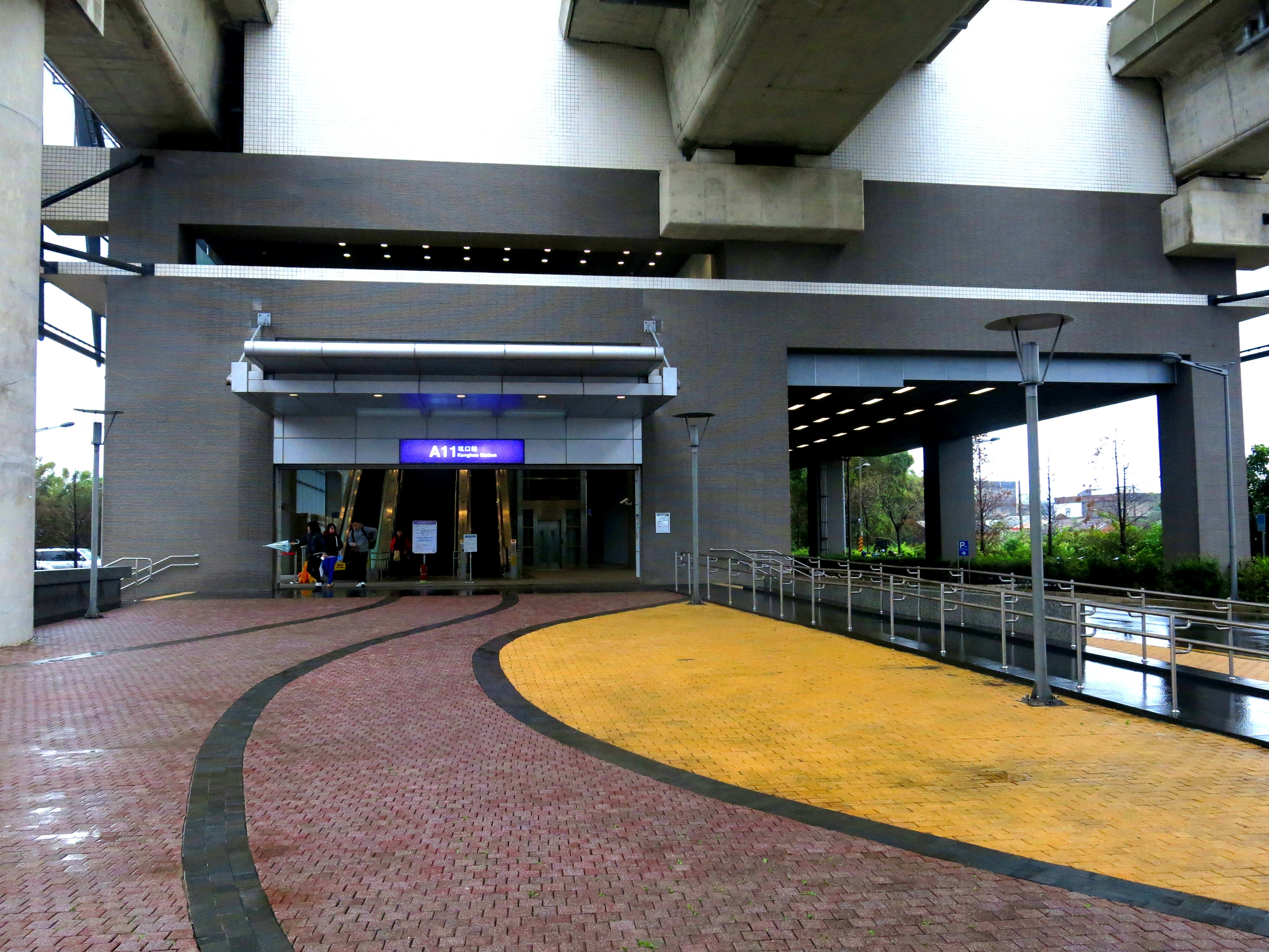 Taoyuan Metro A11 Kengkou Station 中文（中国大陆）: 桃园捷运机场线A11坑口站